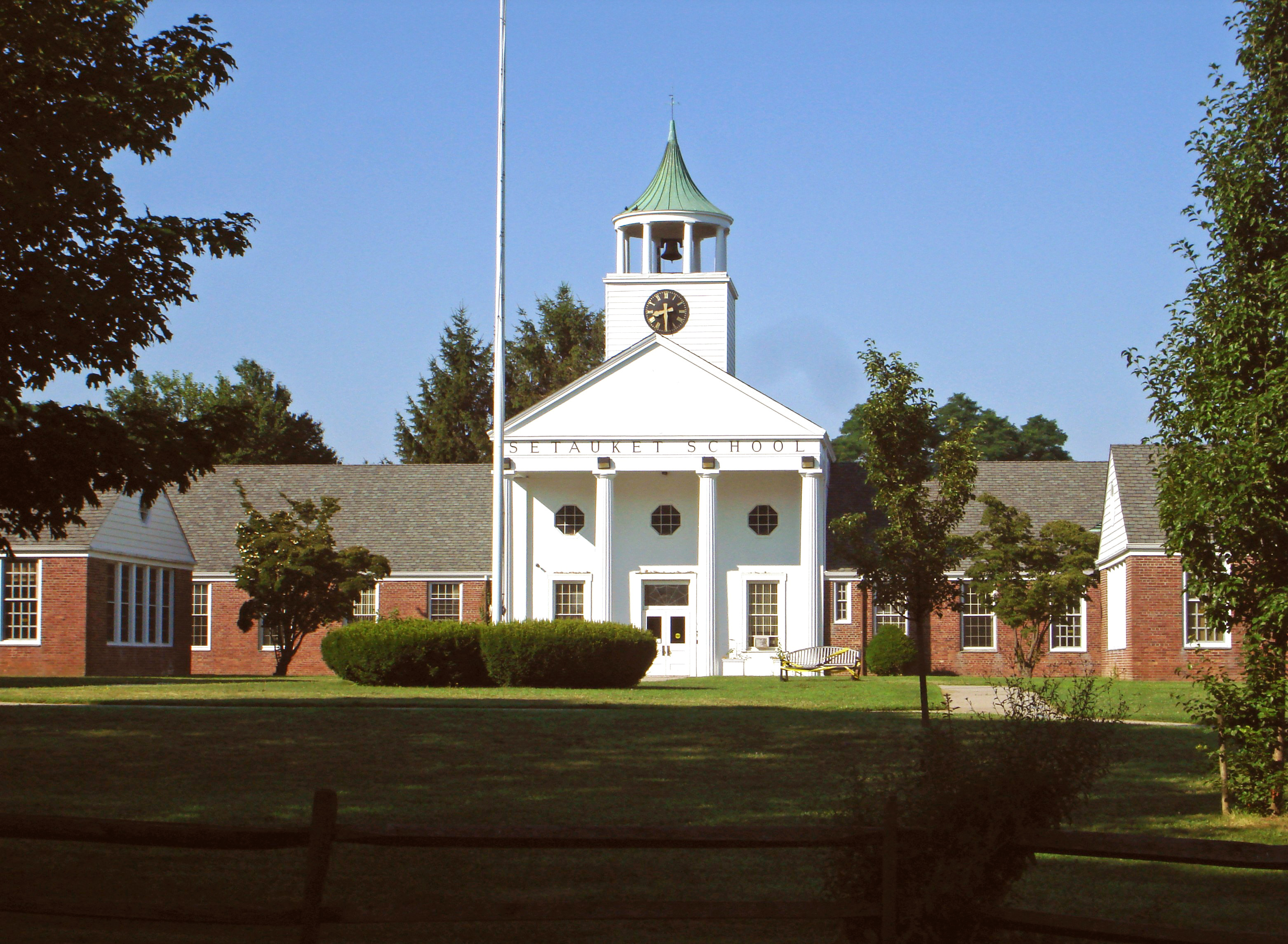 The Setauket Elementary School in East Setauket.